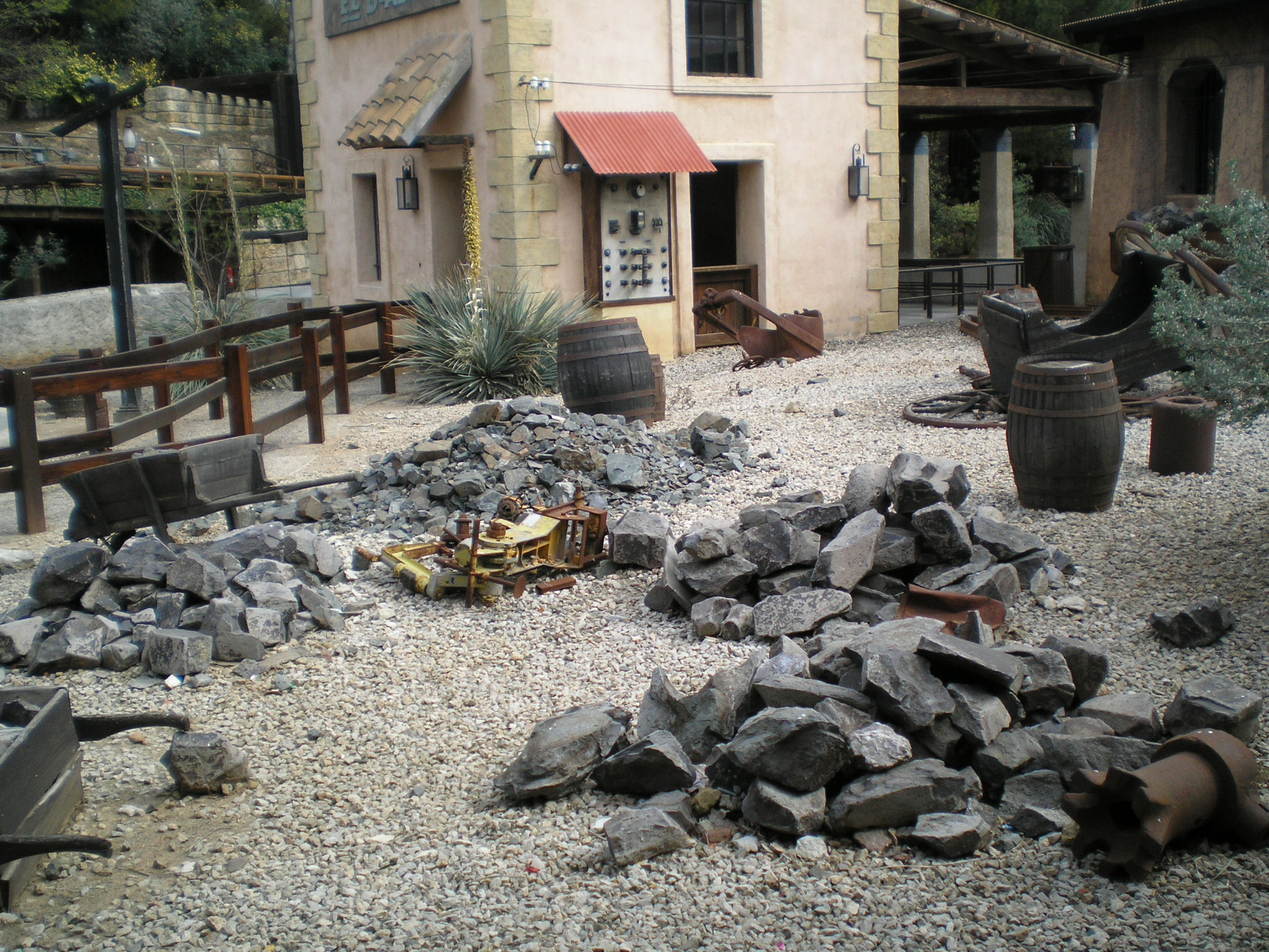 Thematic